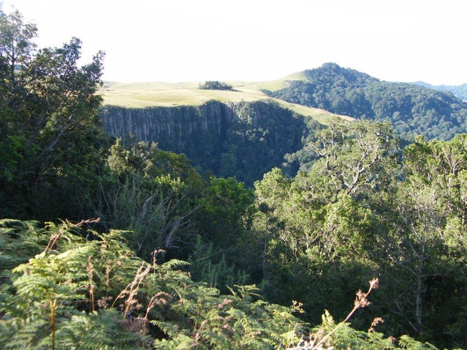 Karkloof Forest near Howick, KwaZulu-Natal 29°17'40.84"S, 30°17'56.03"E